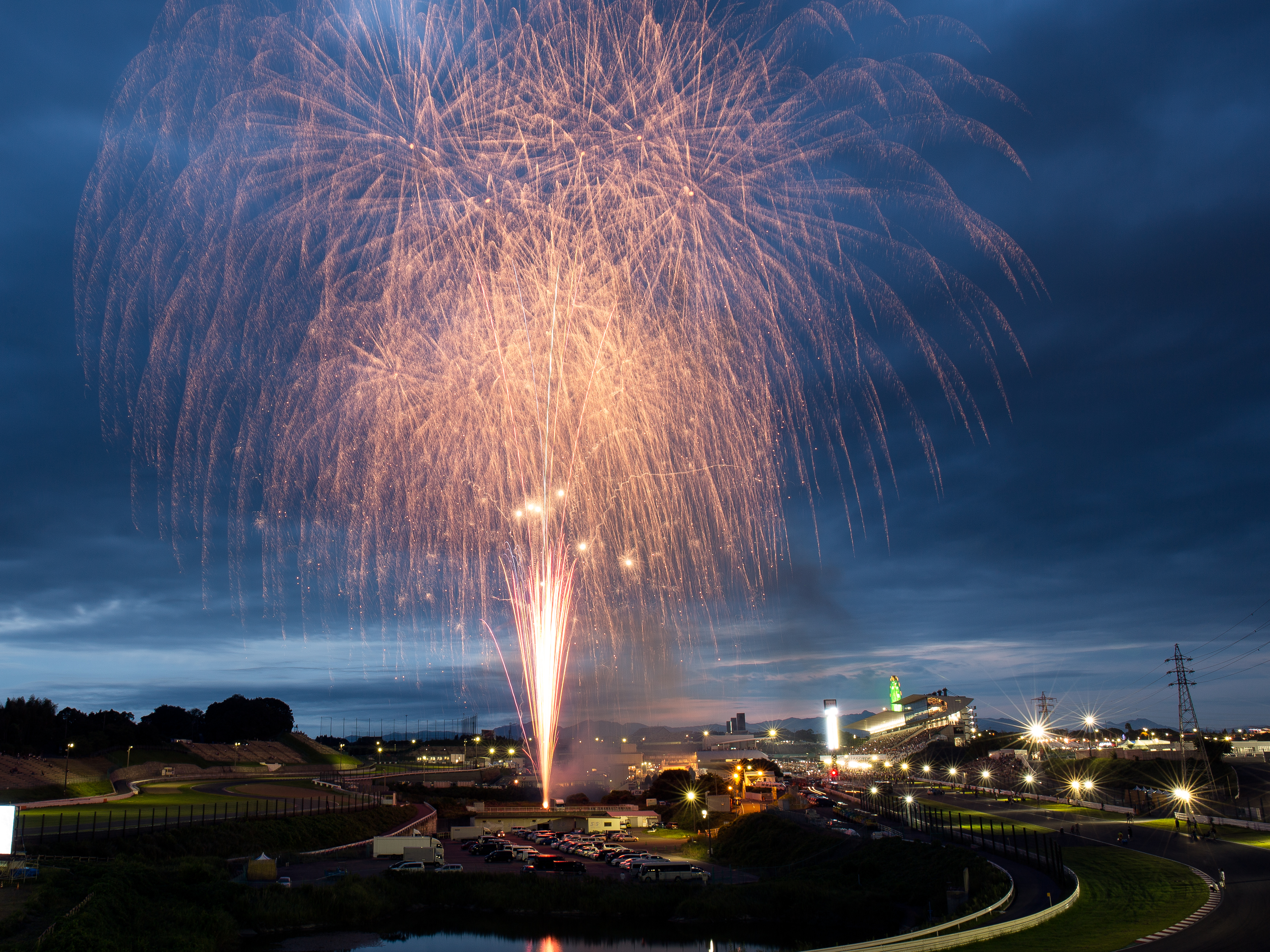 Super GT 2014 Rd.6 Suzuka 1000km: Fireworks